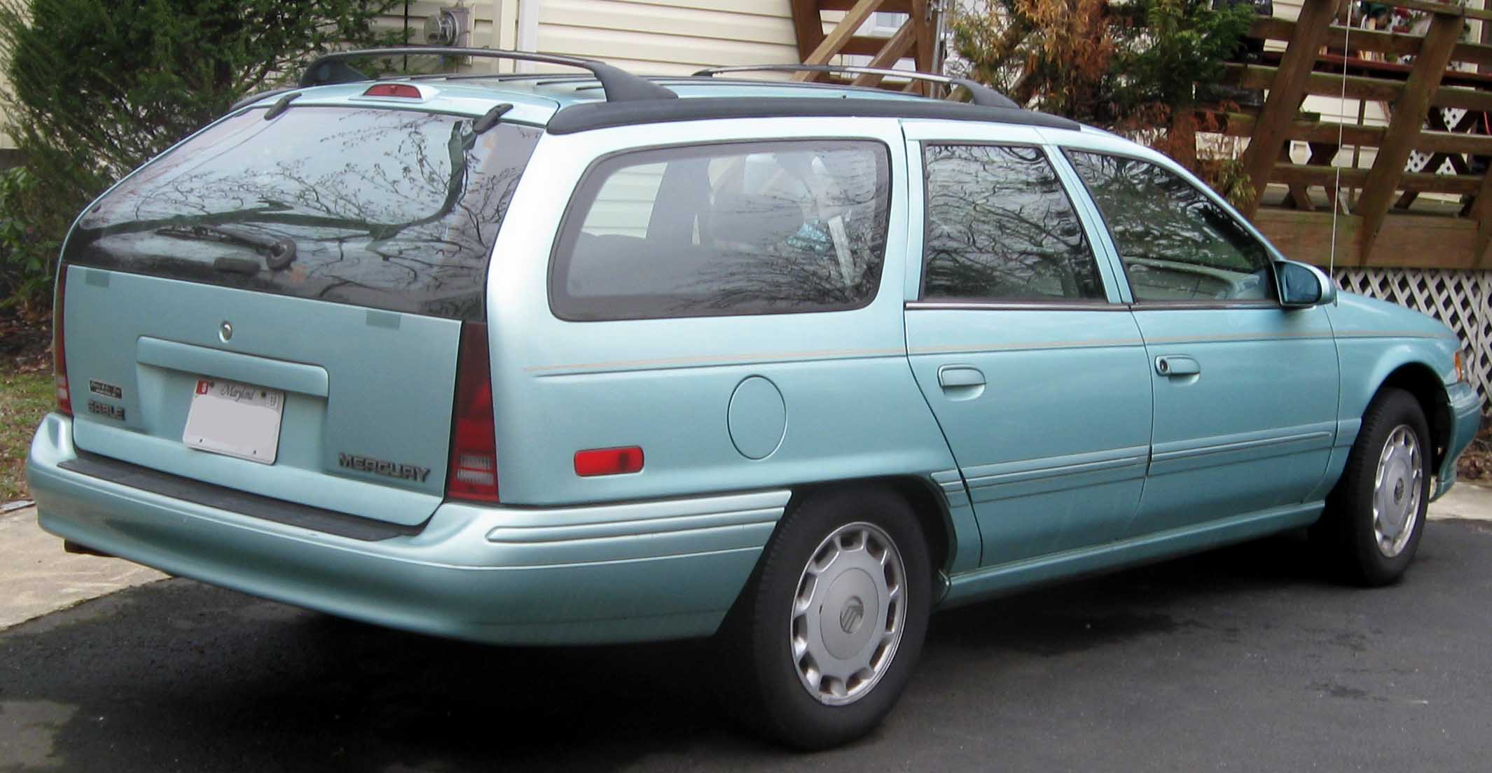 1994-1995 Mercury Sable photographed in Fort Washington, Maryland, USA.